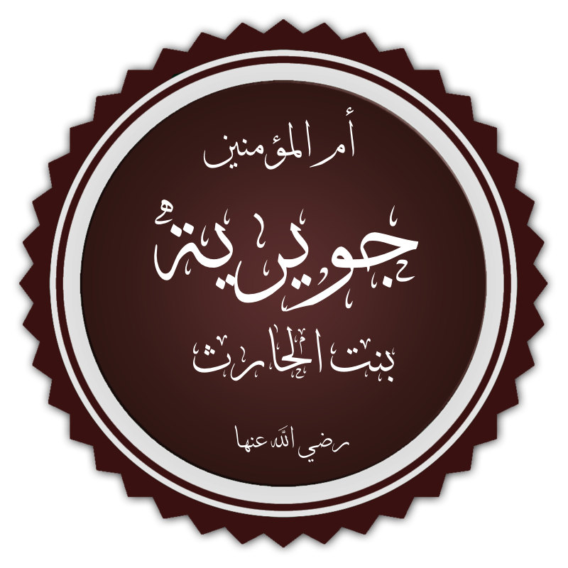 Juwayriyya bint al-Harith